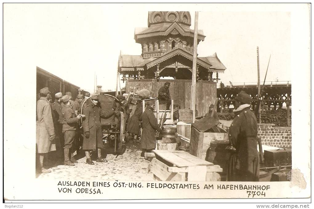 Old Open Letter (Carte Postale) with view of showing soldies of Austro-Hungarian Army in Odessa port in the fall of 1918.